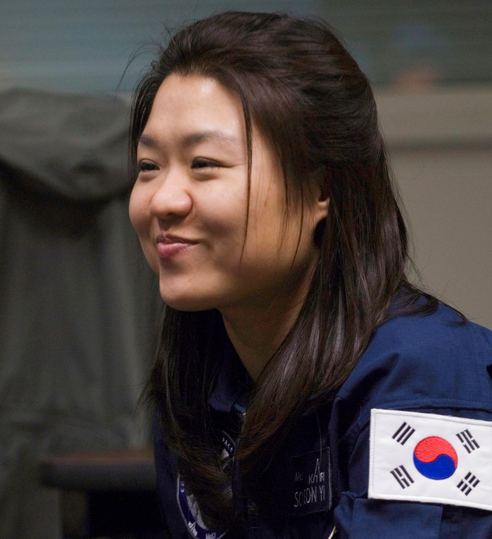 Backup spaceflight participant So-Yeon Yi listens to a news reporter's question for spaceflight participant San Ko (out of frame) of South Korea during an Expedition 17 press briefing on Jan. 15, 2008 at the Johnson Space Center. [Soyeon Yi has been named to replace San Ko as South Korea's first astronaut, it was announced March 10.]